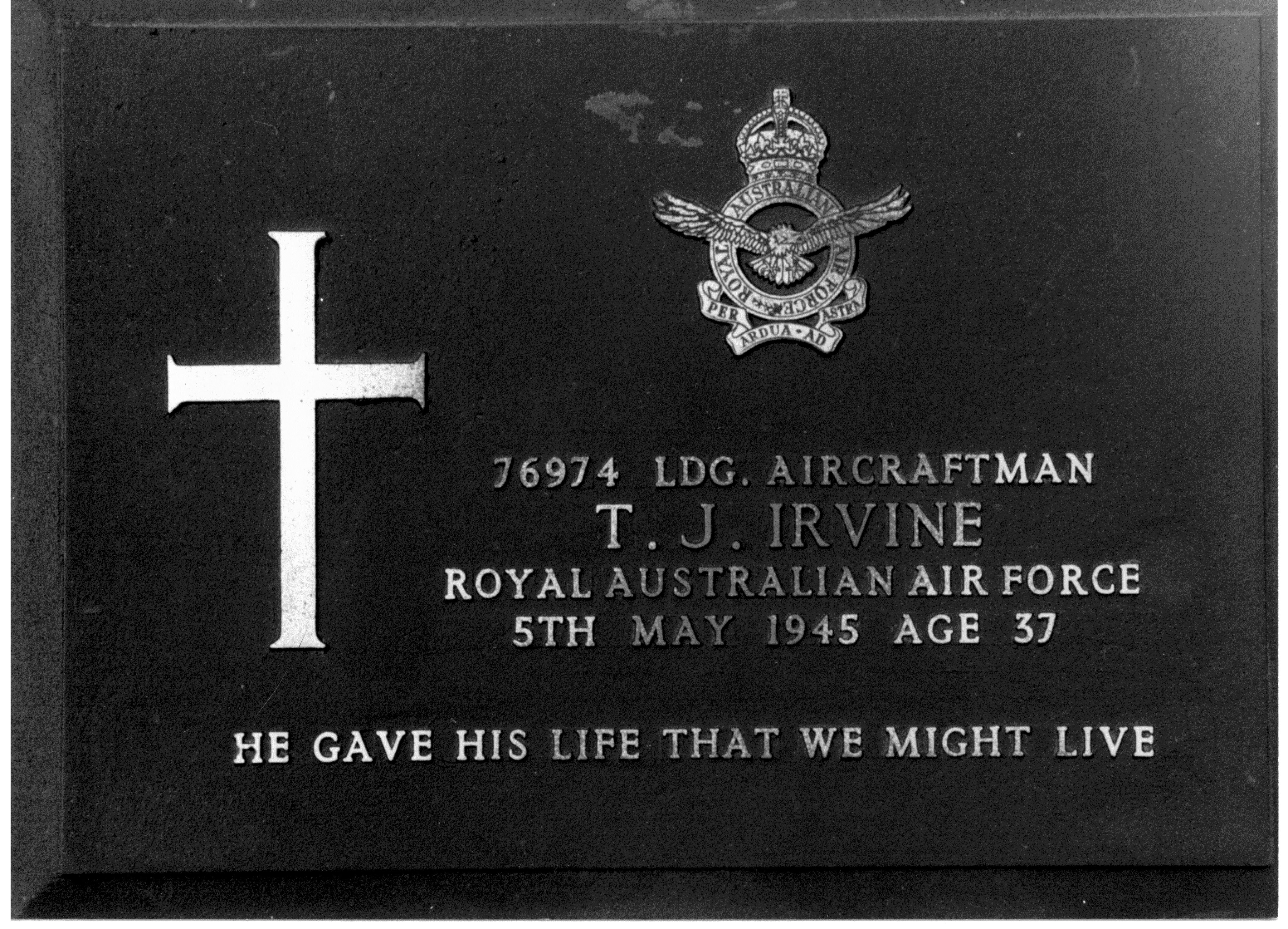 Gravestone of Leading Aircraftman Thomas Irvine, RAAF. LAC Irvine was killed on the island of Tarakan by a Japanese raiding party. He is buried in the Commonwealth War Graves Cemetery, Labuan.